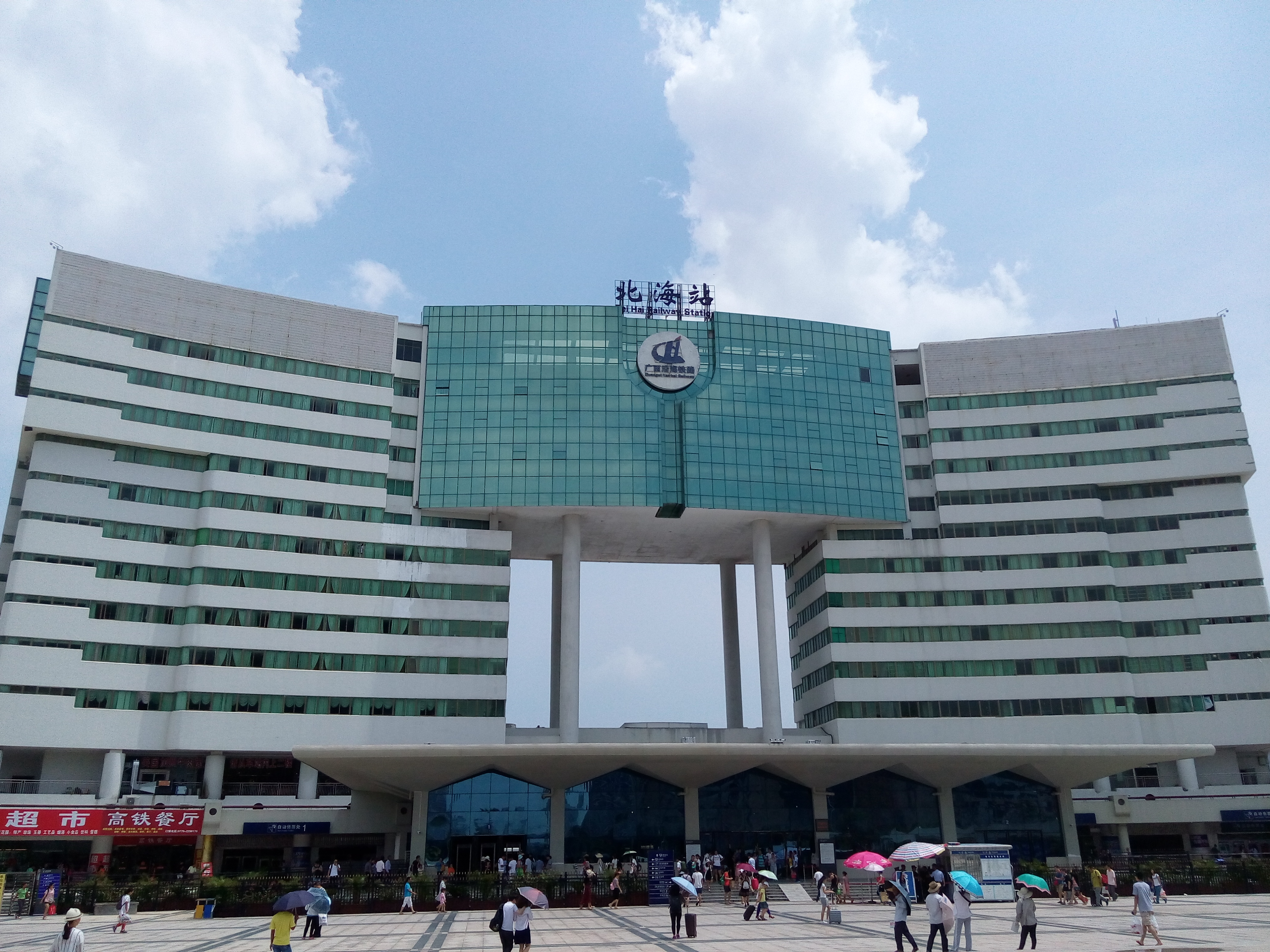 Beihai Railway Station 中文（中国大陆）: 北海火车站